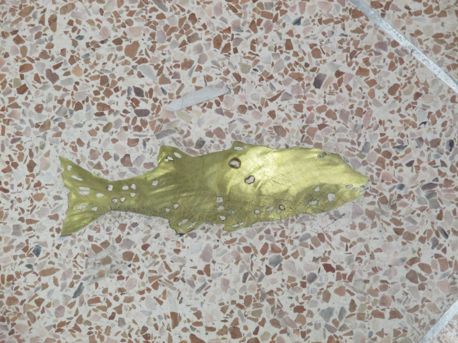 Detail of artwork by Stephen Cruise at Don Mills Station, Toronto. The detail is a bronze inlay representing a fish fossil, set into the floor.